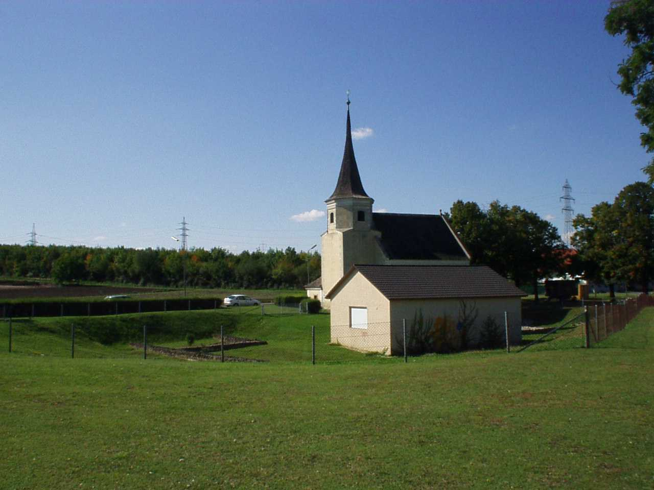 Vienna: St. Johann church in Unterlaa (in the 10th district "Favoriten", oldest church in Vienna) source: own picture date: 2002-05-29